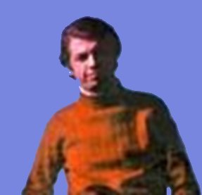 Eduardo Cogorno. Argentina. Folk/tradicional/pop singer.